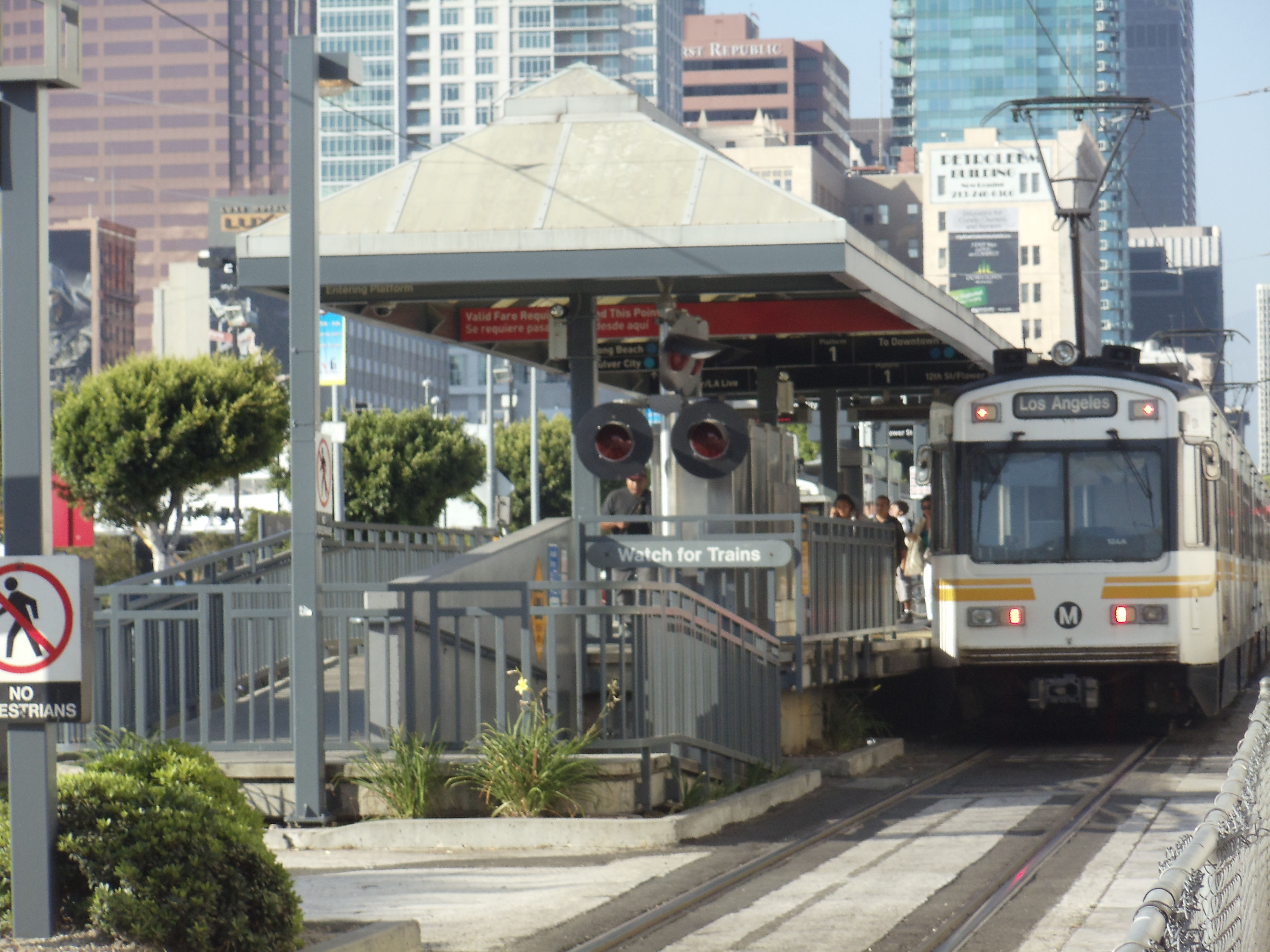 Station entrance.